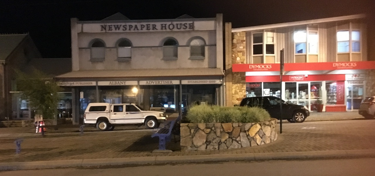 Albany Advertiser office in Newspaper House and Dymocks franchise, York Street, Albany, Western Australia